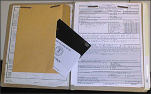 A typical U.S. Air Force OMPF from recent years. (National Personnel Records Center)